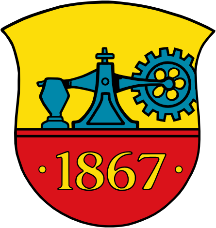 Old Coat of Arms Kattowitz